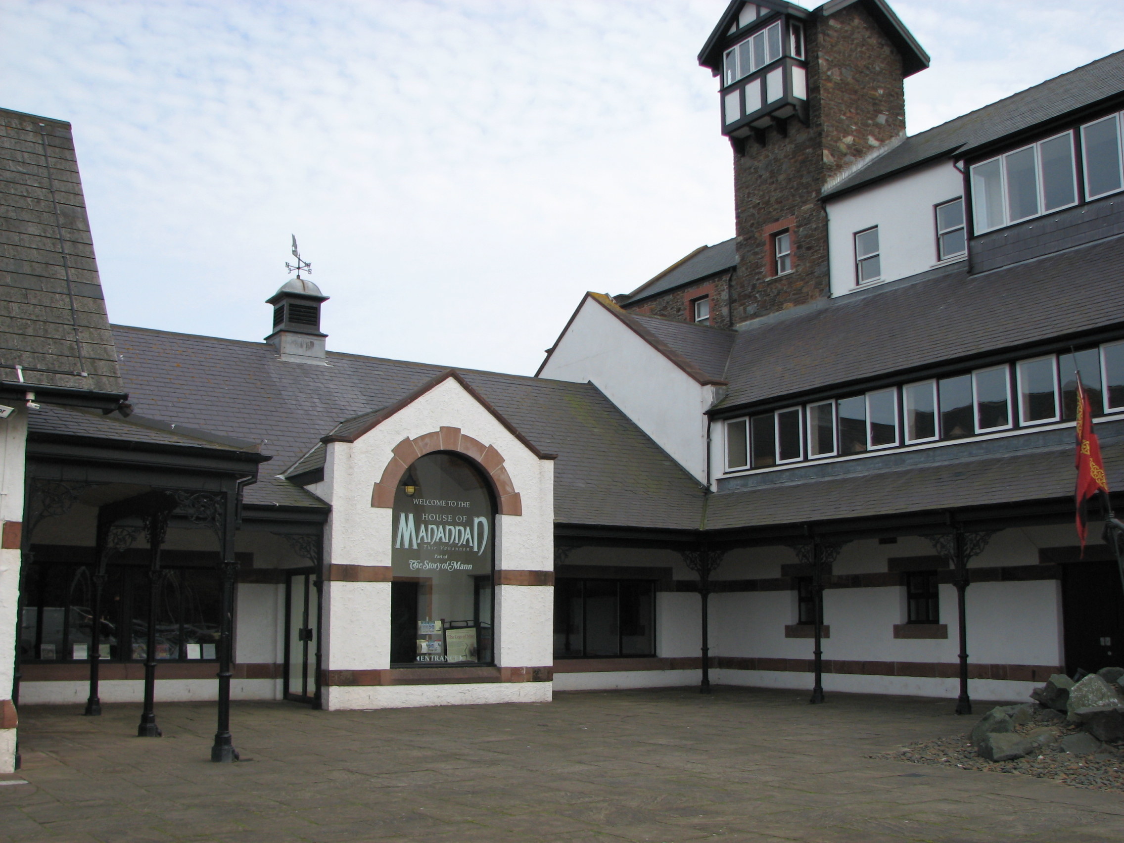 House of Manannan, a fine museum of culture and history in Peel, Isle of Man (entrance)